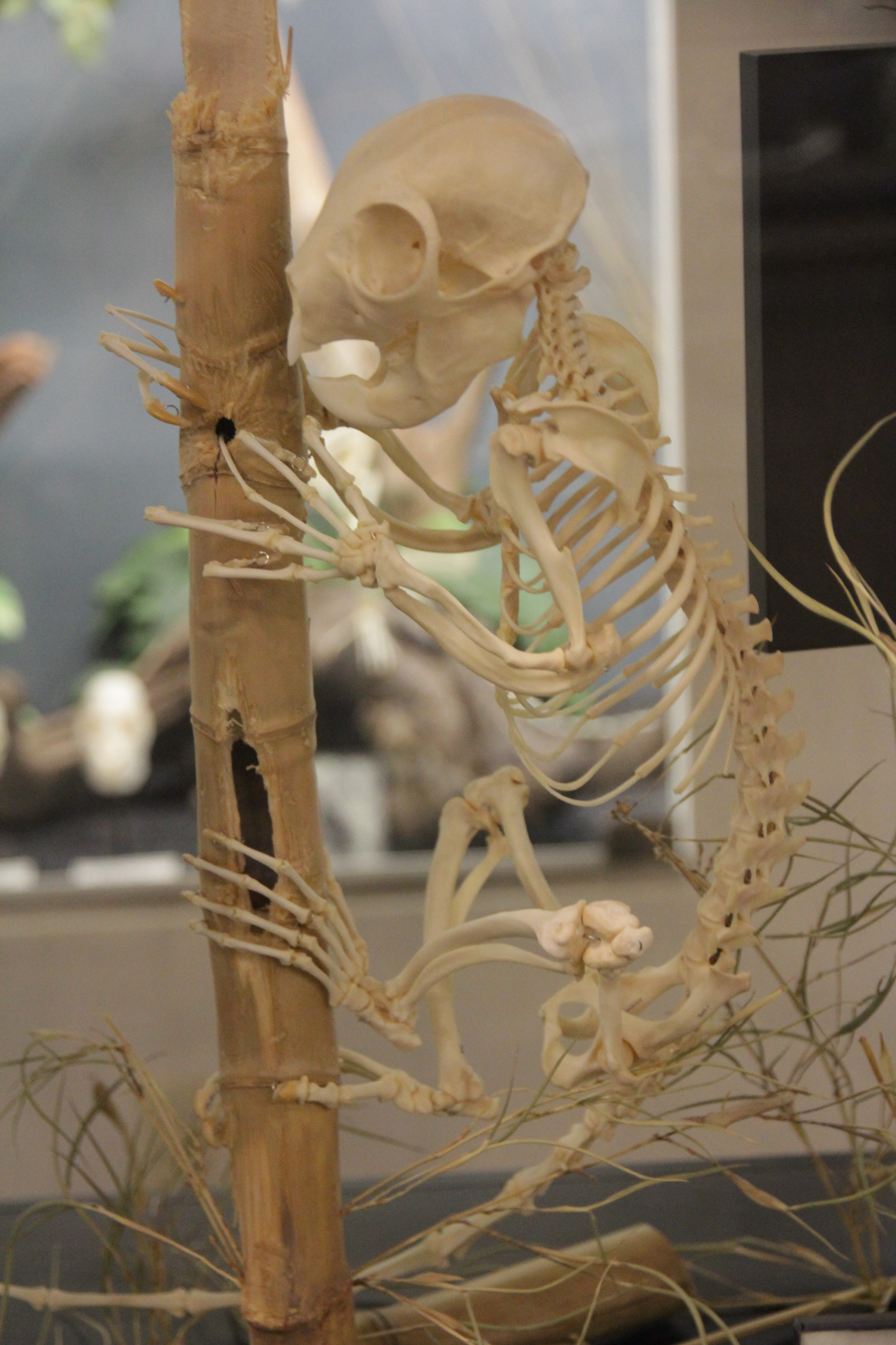 Aye-aye skeleton on display at the Museum of Osteology